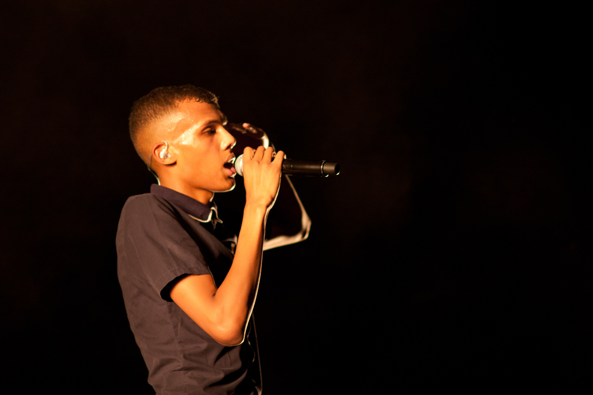 Follow me on facebook Twitter : @didyPhotography All the photographies I've made are now under CC0 (Creative Commons Zero) CC0 - learn more To the extent possible under law, Eddy BERTHIER has waived all copyright and related or neighboring rights to Stromae @ BSF 2011. This work is published from: France.